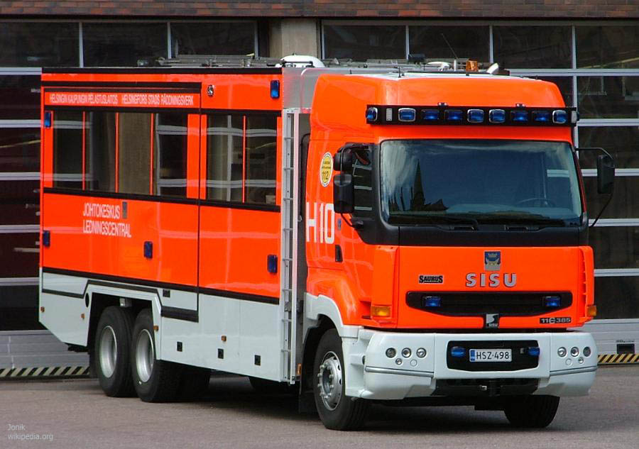 A modern Sisu / Saurus command centre fire engine of the City of Helsinki Rescue Department, photographed in front of the central rescue station in Kallio, in Helsinki, Finland.